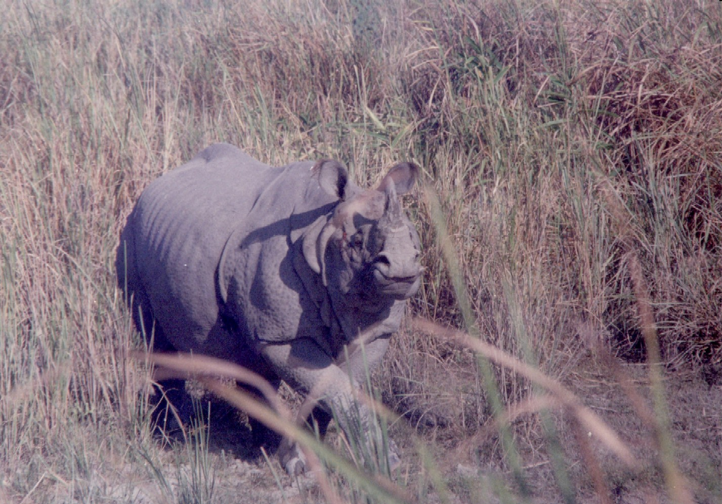 Front three quarter angle photograph of an Great One Horned Indian Rhinoceros taken from atop an elephant in Kaziranga National Park that captures the dynamic stride of the beast. Photo taken using a Canon AV-1 SLR.